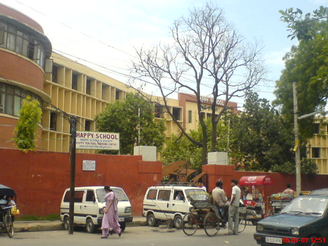 Left side view from outside the gate of Happy School, Darya Ganj